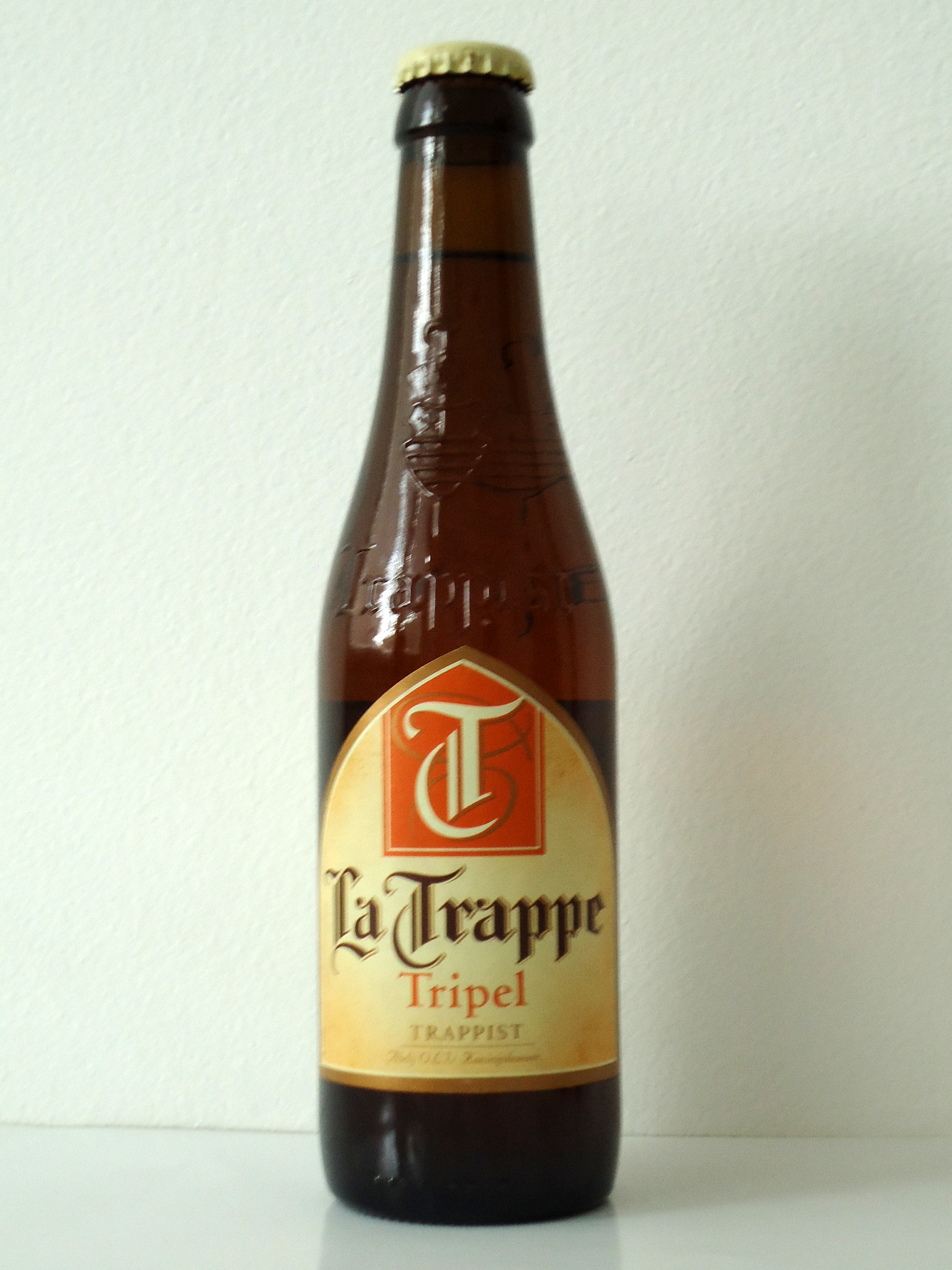 La Trappe Tripel beer